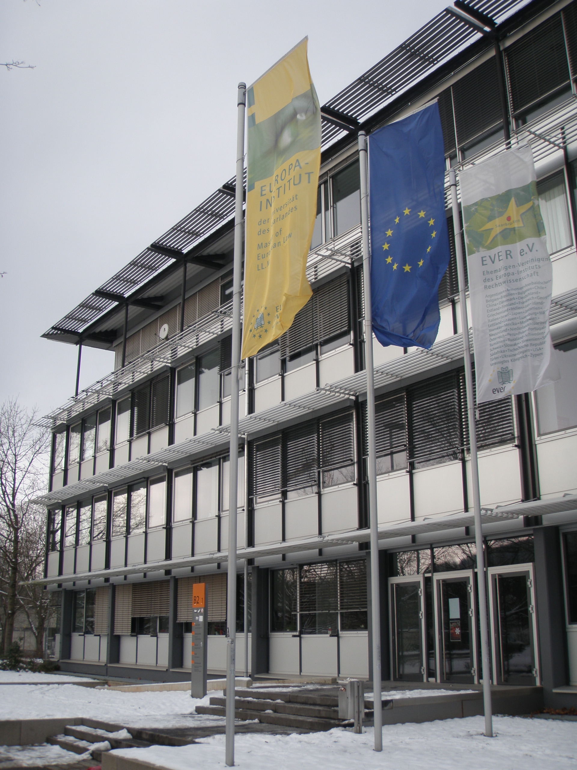 Front of the Europa-Institut building, winter